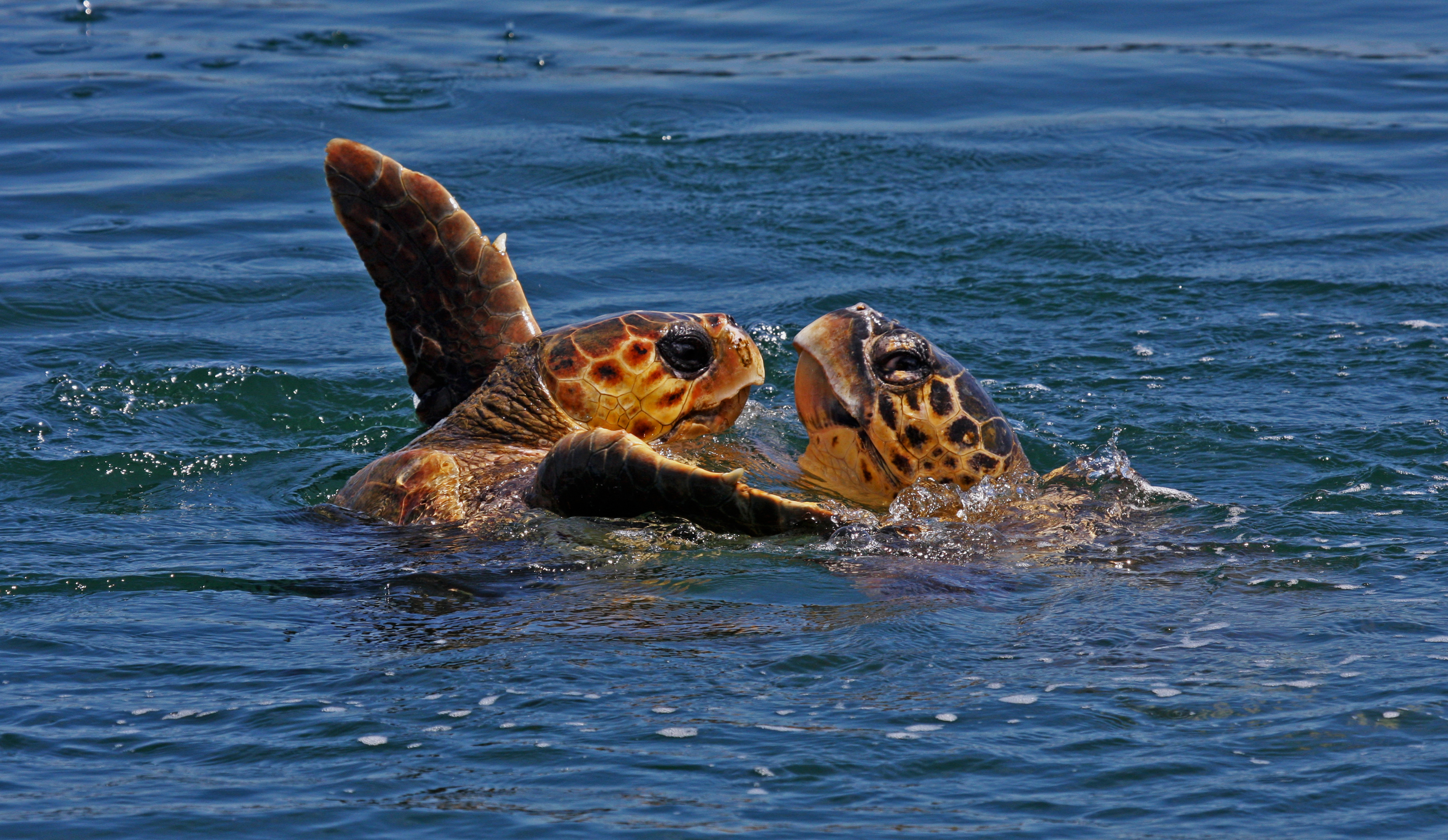 Caretta caretta mating 'dance' at Amvrakikos Gulf This is a photography of Natura 2000 protected area with ID GR2110001